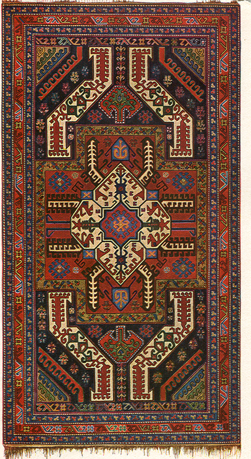 "Kasym ushagy carpets" - Azerbaijanian fleecy carpet, Karabakh school, Jabrayi (Cəbrayıl) group .The name of this carpet is associated with the name "Kasym ushagy", the residents of the villages Shamkend, Erikli, Kurdhaji, Chorman and Shelva, located to the north of Lachin, the present-day district center, of Azerbaijan.